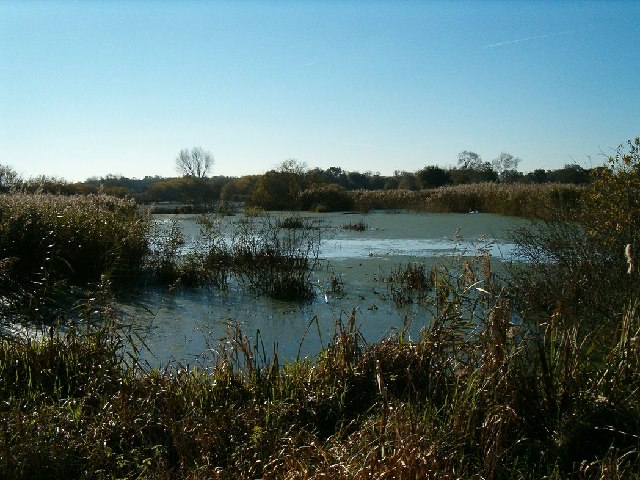 Flooded Peat Workings, Glastonbury Heath.